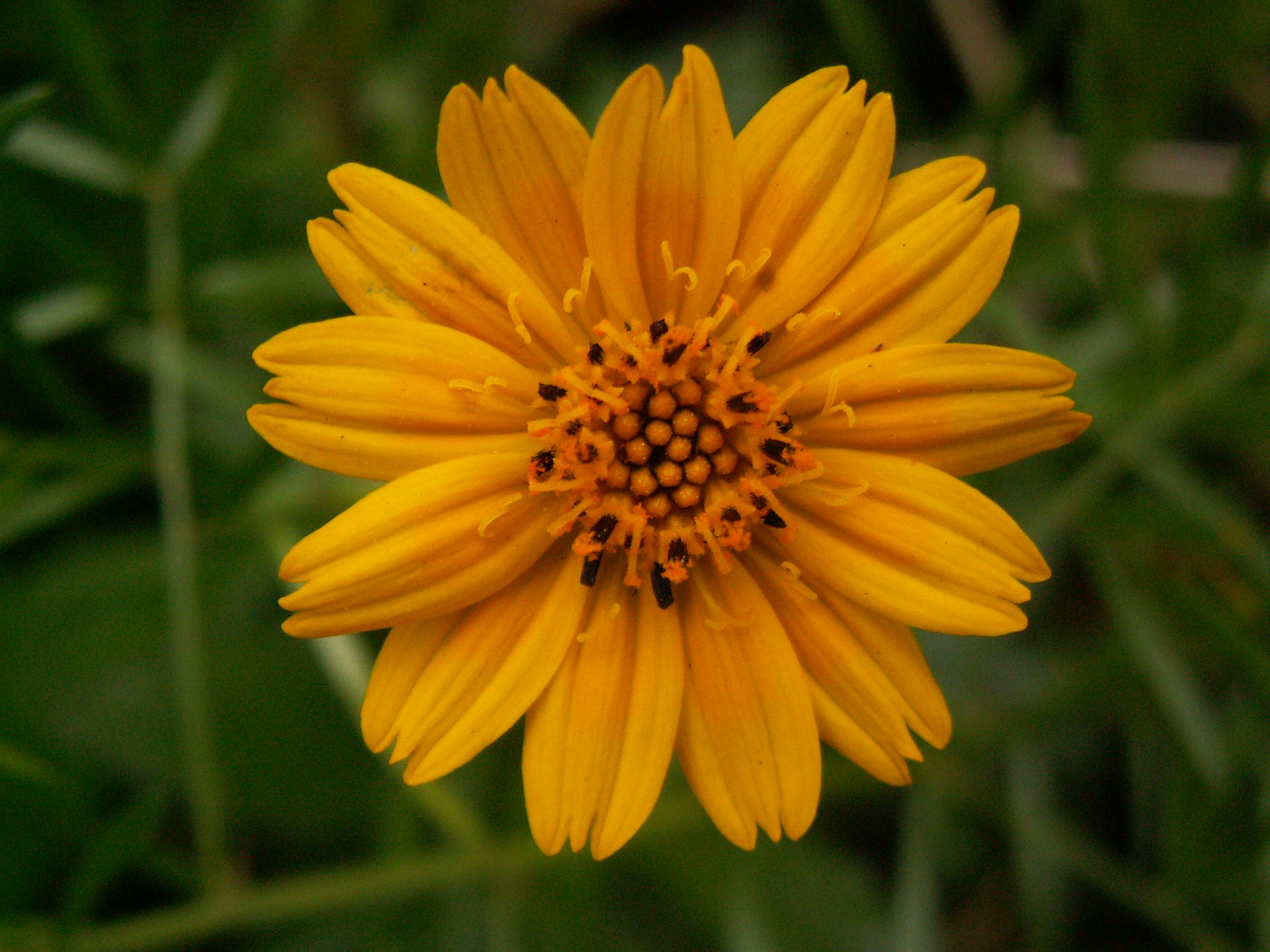 Top view of a Sphagneticola calendulacea (= Wedelia chinensis) flower in CUHK, Hong Kong. Photo taken on 30 March 2006 by Lorenzarius. 中文名: 蟛蜞菊 Common name: ? Scientific name: Wedelia chinensis